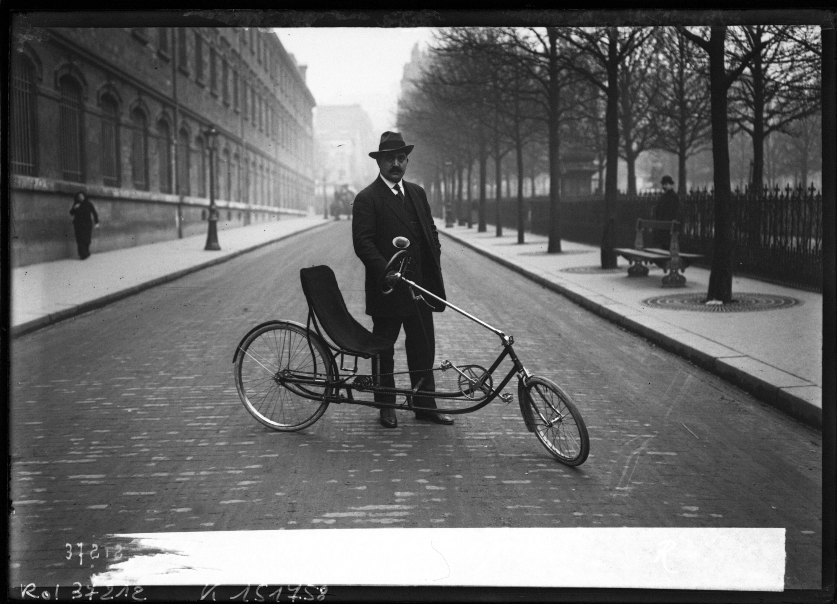 French recumbent bicycle,1914 year.